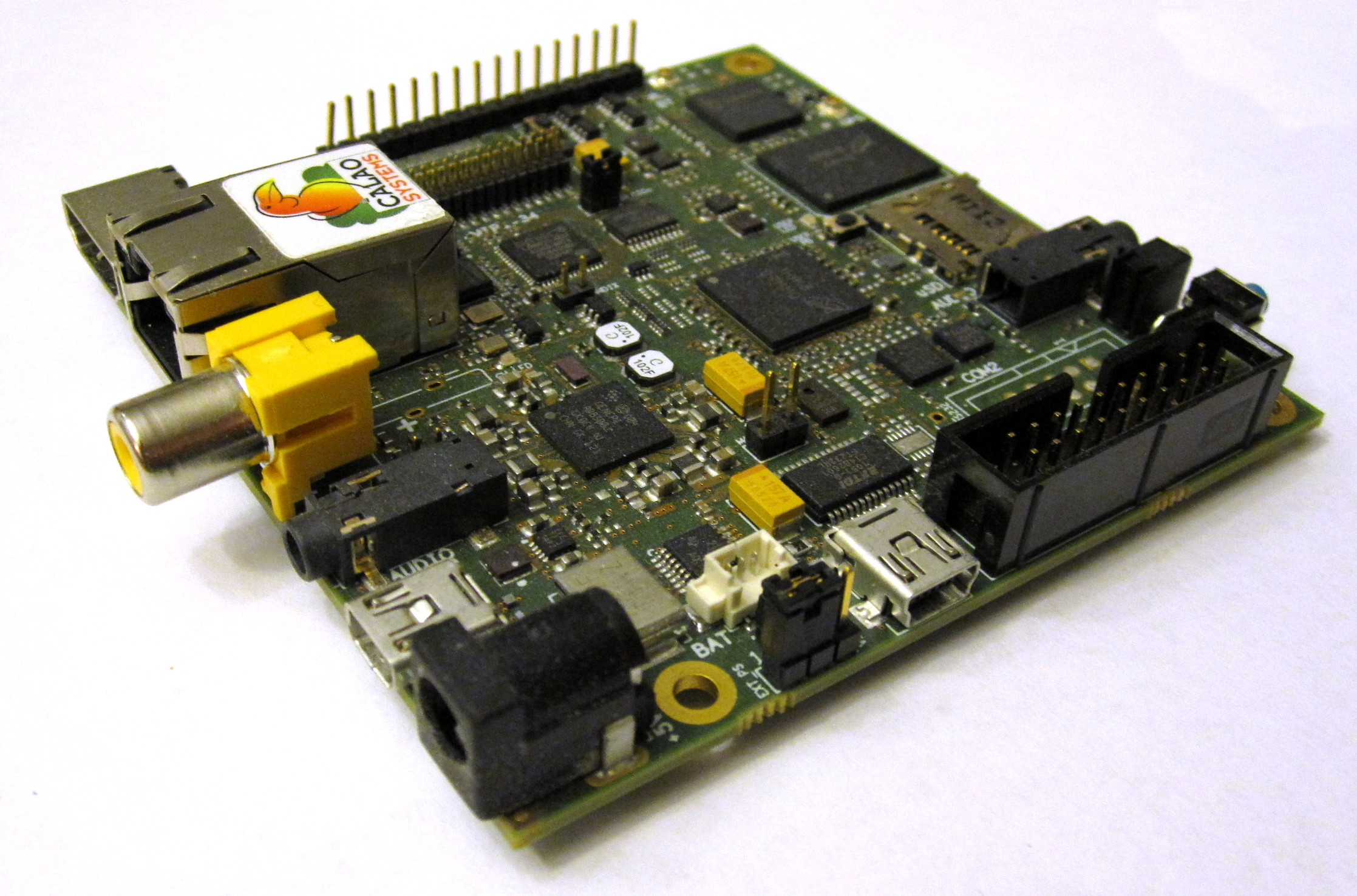 The ST-Ericsson Snowball was a single board computer based on the A9500 NovaThor chipset.